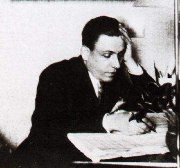 Wanda Landowska (1879-1959) and Françis Poulenc